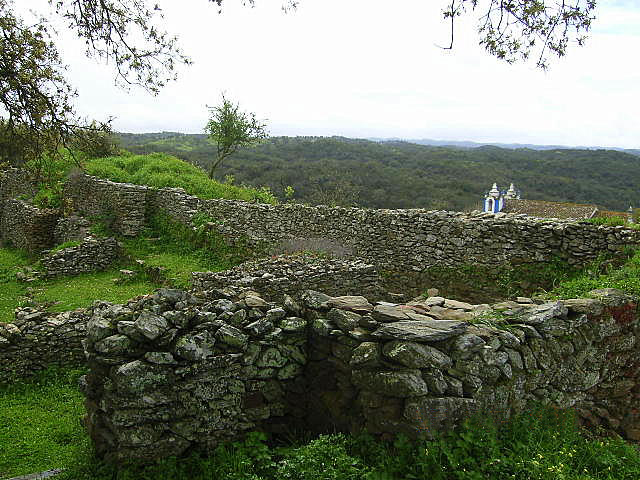 Fortified medieval settlement. Hill fort "Castro da Cola" or "Castelo de Cola" near Ourique / Beja.